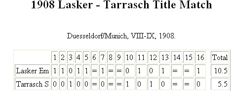 Chess_Lasker_-_Tarrasch_Title_Match